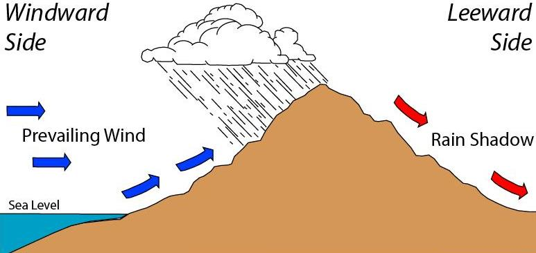 Diagram of a rain shadow and its effects.